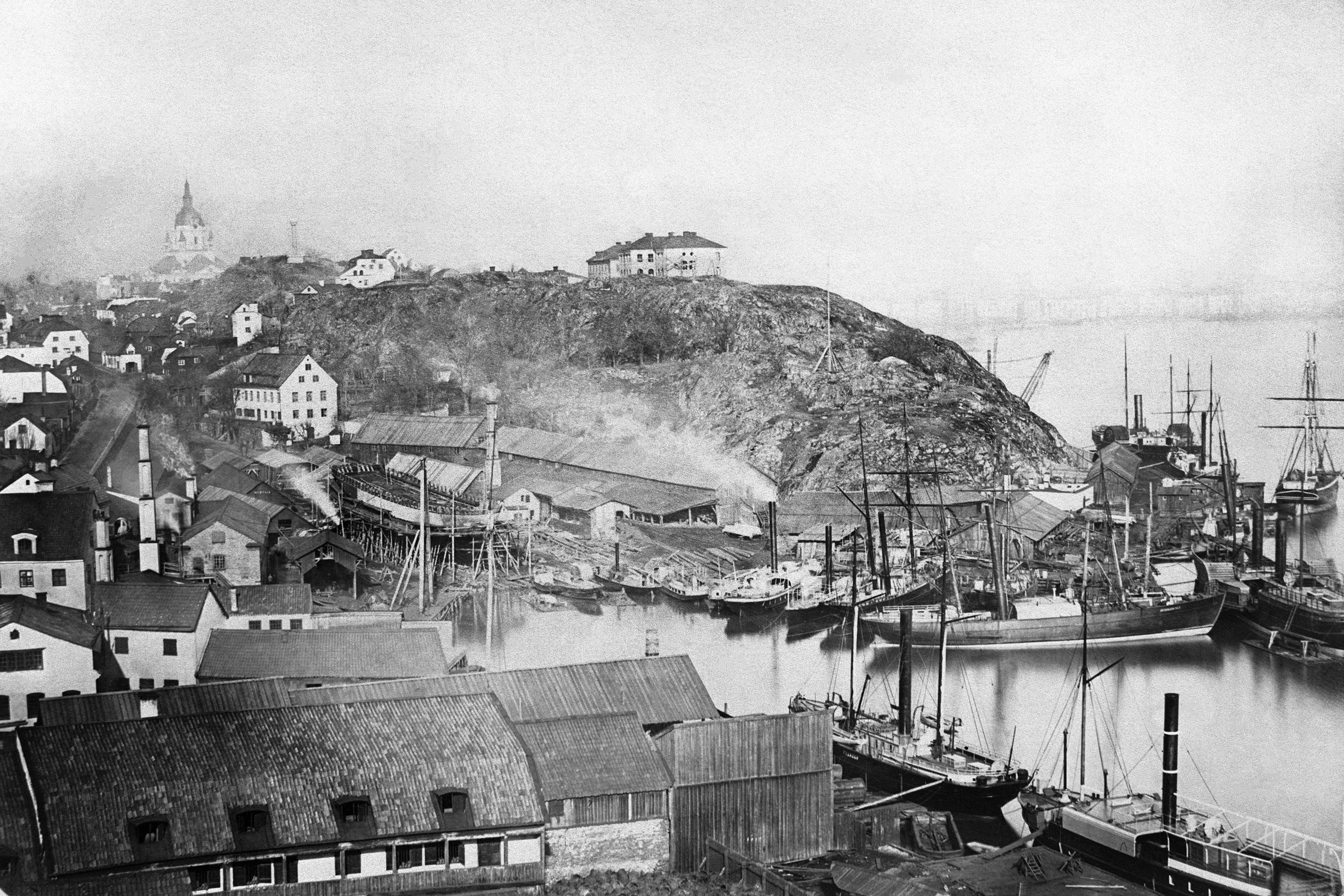 The Big Shipyard (or the Southern Shipyard) at Tegelviken bay at Ersta mountain in Stockholm. To the left a glimpse of Katarina church. Stora varvet (eller Södra varvet) vid Tegelviken vid Erstaberget. Till vänster syns Katarina kyrka. Parish (socken): Stockholm Province (landskap): Södermanland Municipality (kommun): Stockholm County (län): Stockholm Photograph by: Unknown Date: 1860s Format: Glass plate negative Persistent URL: Read more about the photo database (in english)